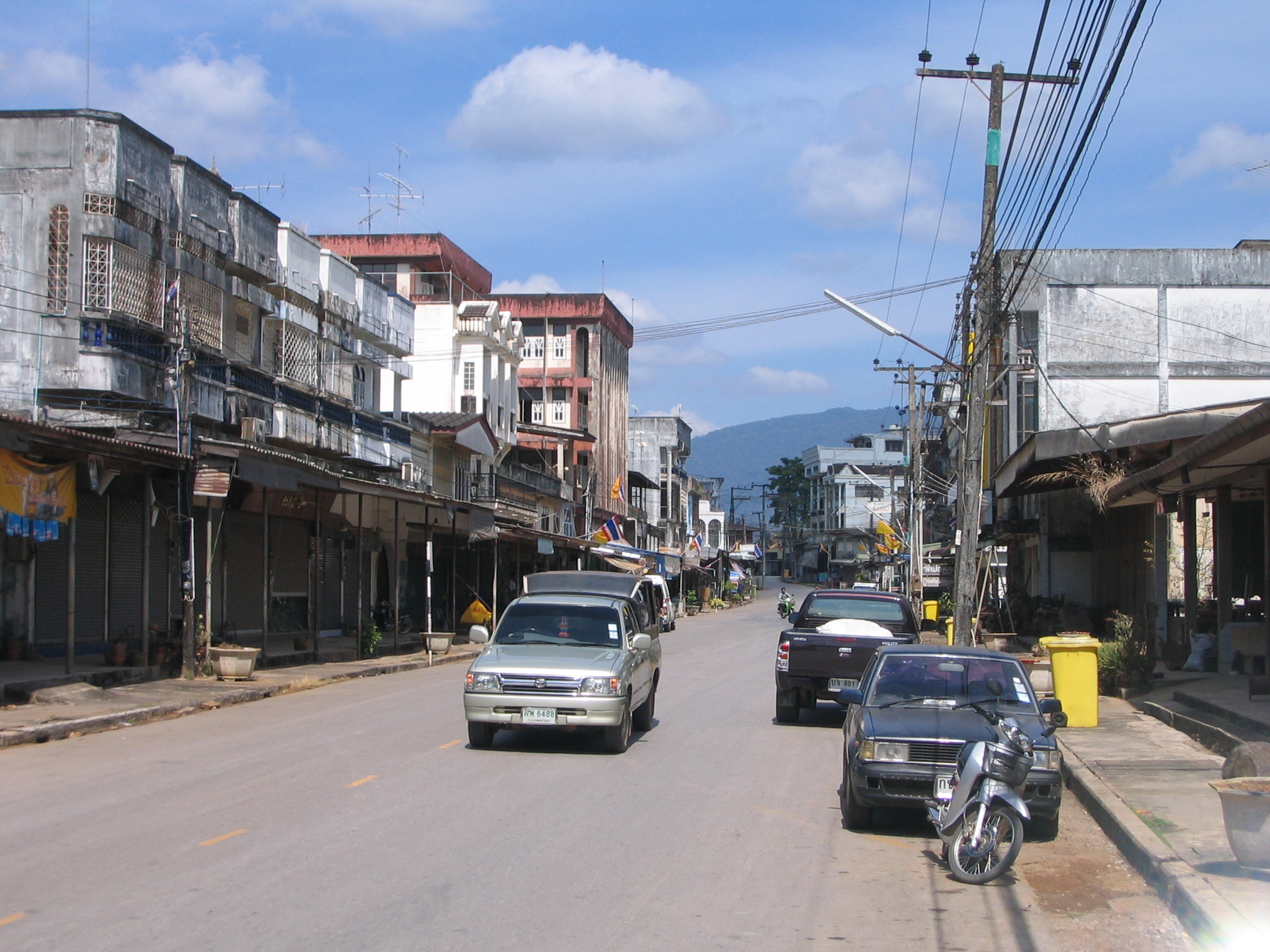 This is the main street of Amphoe Bo Rai, Trat Province, Thailand.